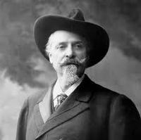 "Buffalo Bill" Cody, wearing a Stetson hat